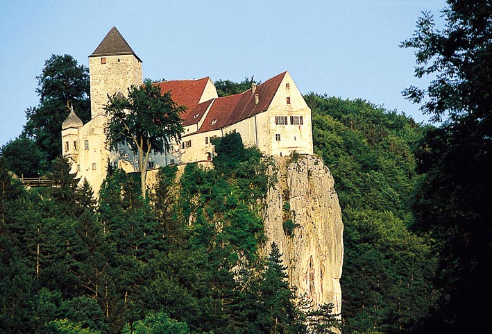 Prunn Castle, western aspect